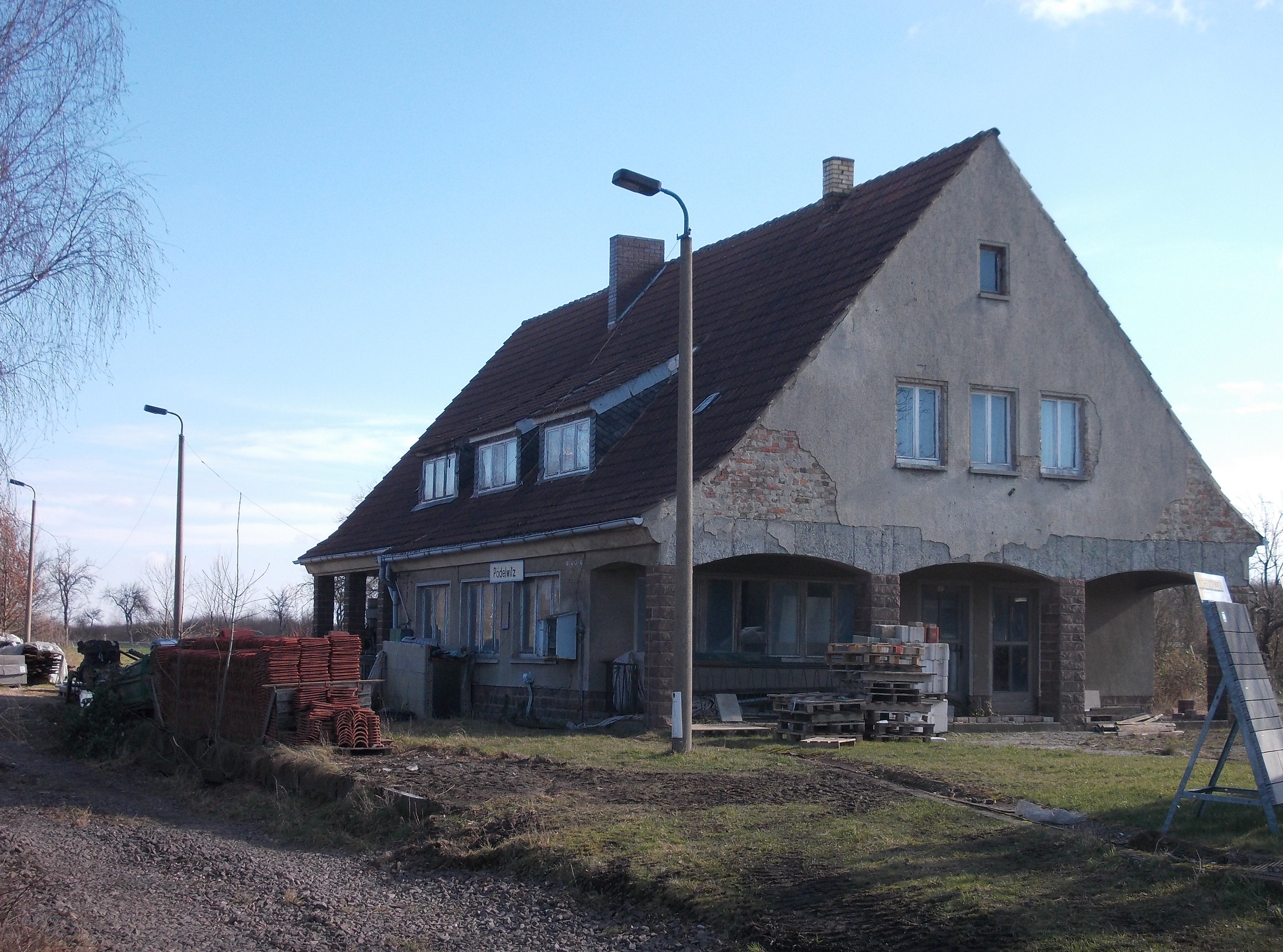 Former train station in Pödelwitz (Groitzsch, Leipzig district, Saxony)